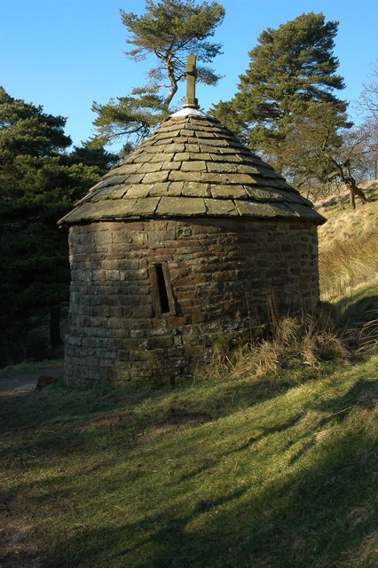 Spanish Shrine, Errwood estate, near Hartington, Derbyshire. Built in 1889 in memory of the Grimshaw family's governess, Dolores de Ybarguen, a Spanish aristocrat, who died on a visit to Lourdes.